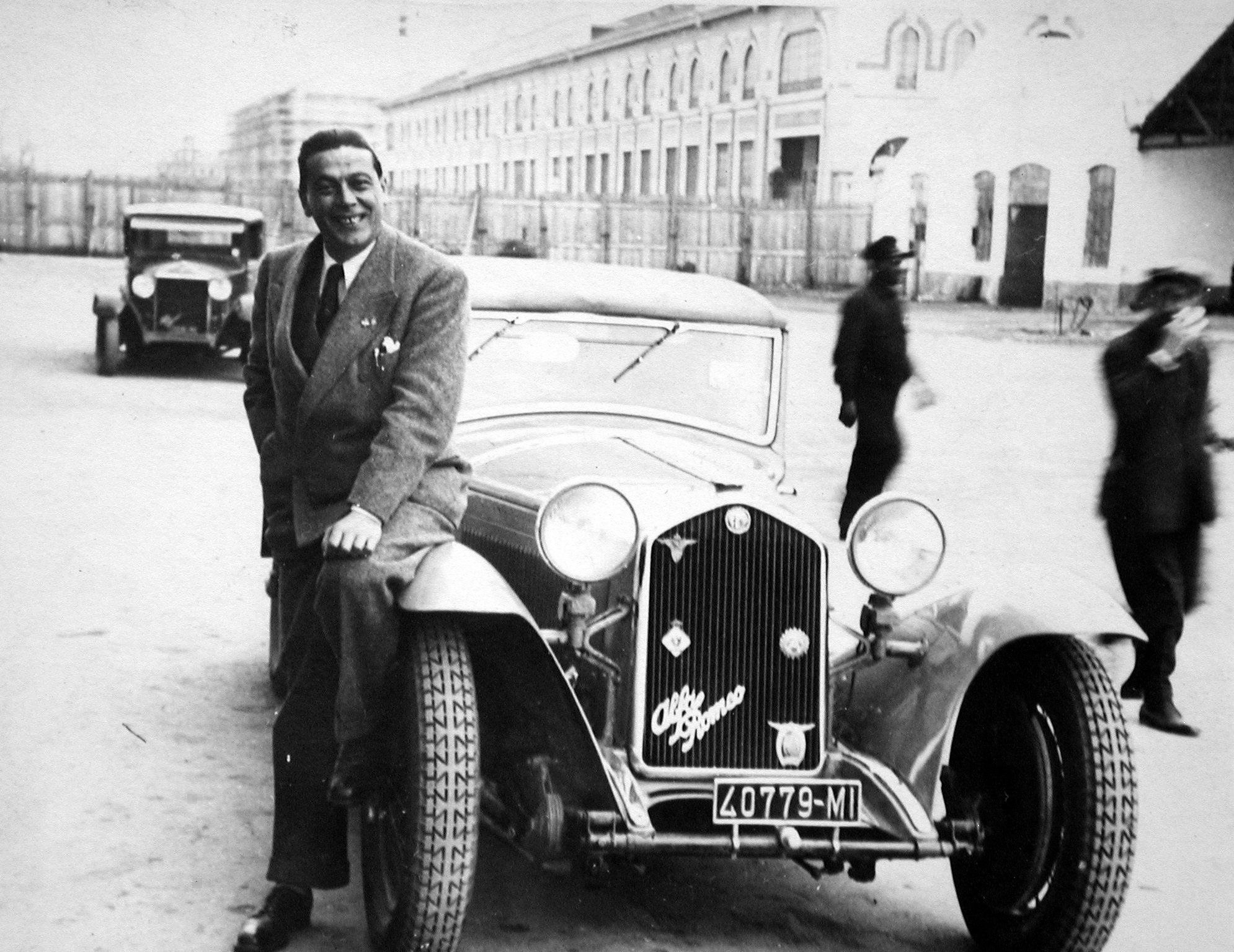 Prospero Gianferrari near his car, in the Alfa Romeo factory. Car model: 1932 Alfa Romeo 8C2300 Castagna (rebody 1933/34), ex Le Mans 1932 Carrozzeria Touring (No: 2211064)